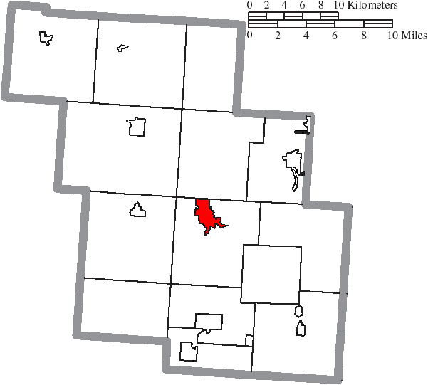 Map of the municipal and township boundaries of Perry County, Ohio, United States, as of the 2000 census, with the location of the village of New Lexington highlighted. Township borders are shown only in unincorporated areas in order to differentiate incorporated and unincorporated areas more clearly.